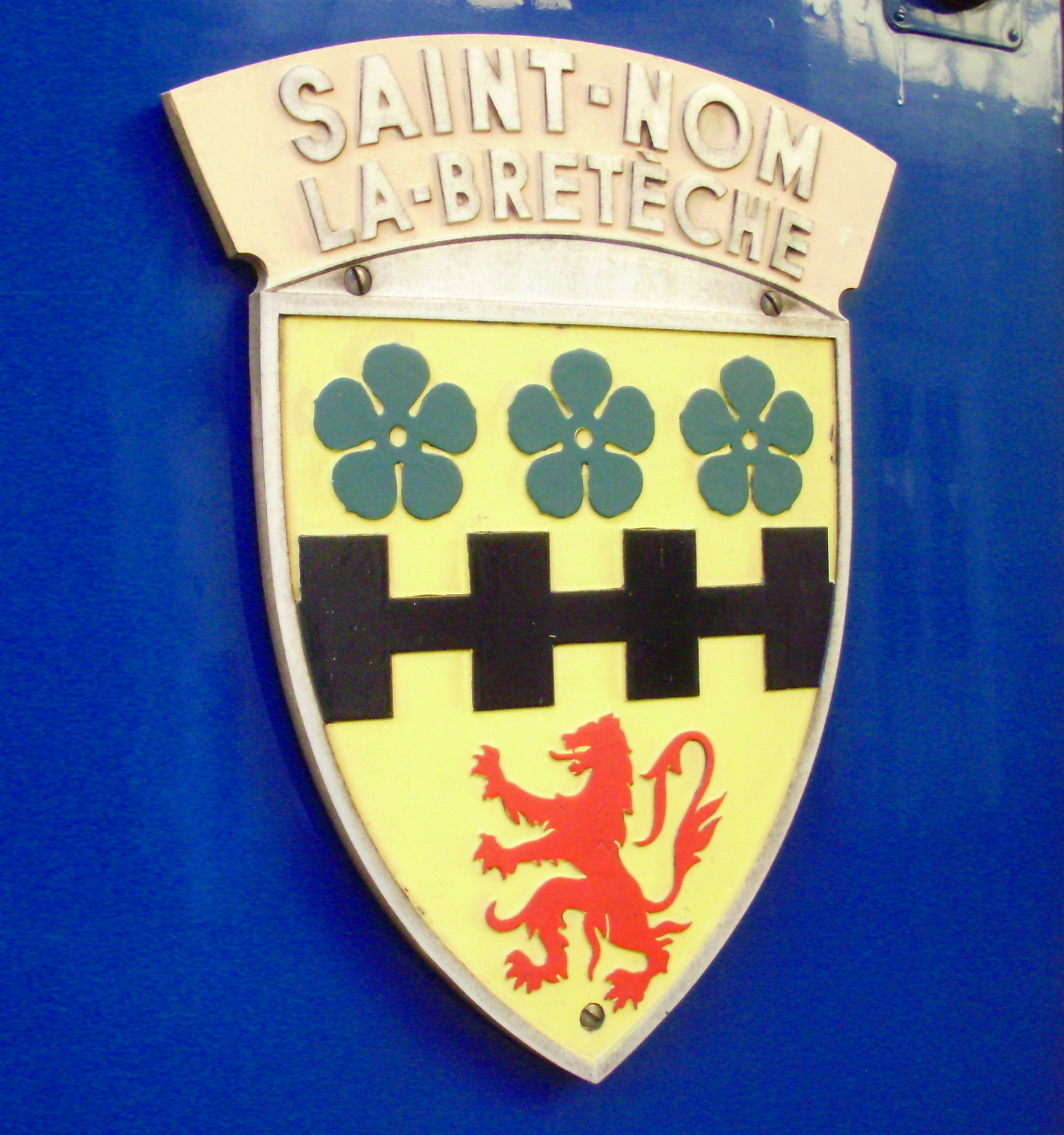 Coat of arms affixed on the SNCF Class Z 6471/72 unit bearing the effigy of Saint-Nom-la-Bretèche, Yvelines, France